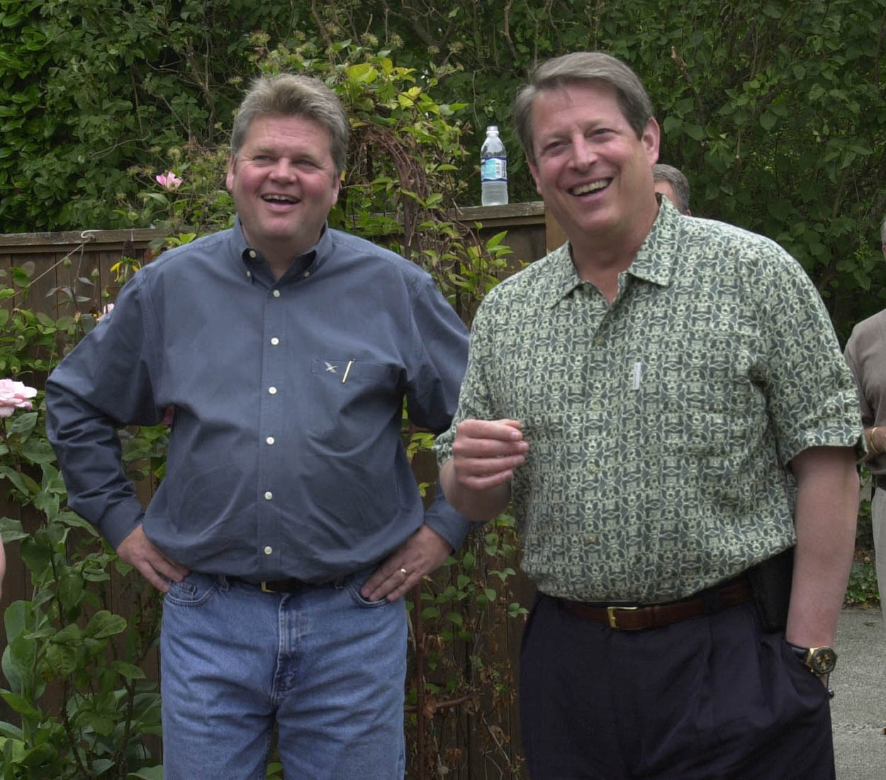 Seattle Mayor Greg Nickels and Al Gore, circa 2006.